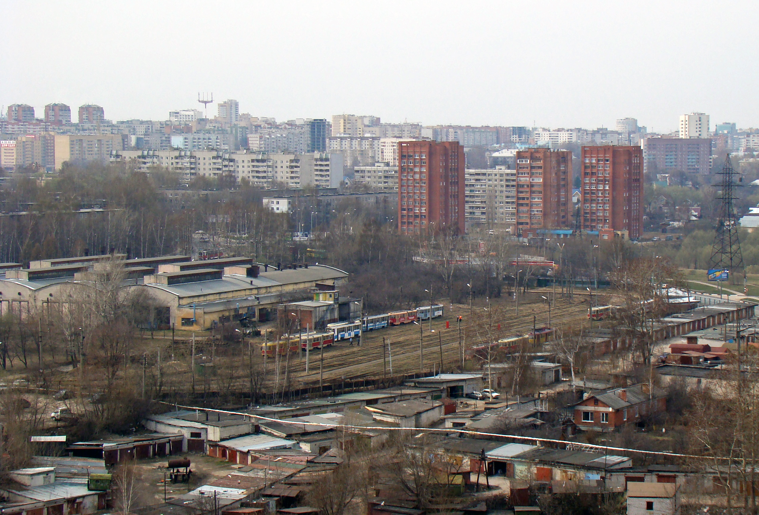 Nizhny Novgorod. View to Tramway depot N1 and apartment buildings of Sovetsky district (raion)